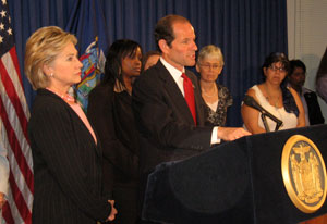 Governor Eliot Spitzer and Senator Hillary Rodham Clinton